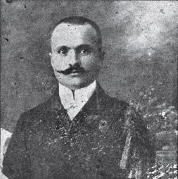 Portrait of IMARO and IMRO member Ivan Karadjov